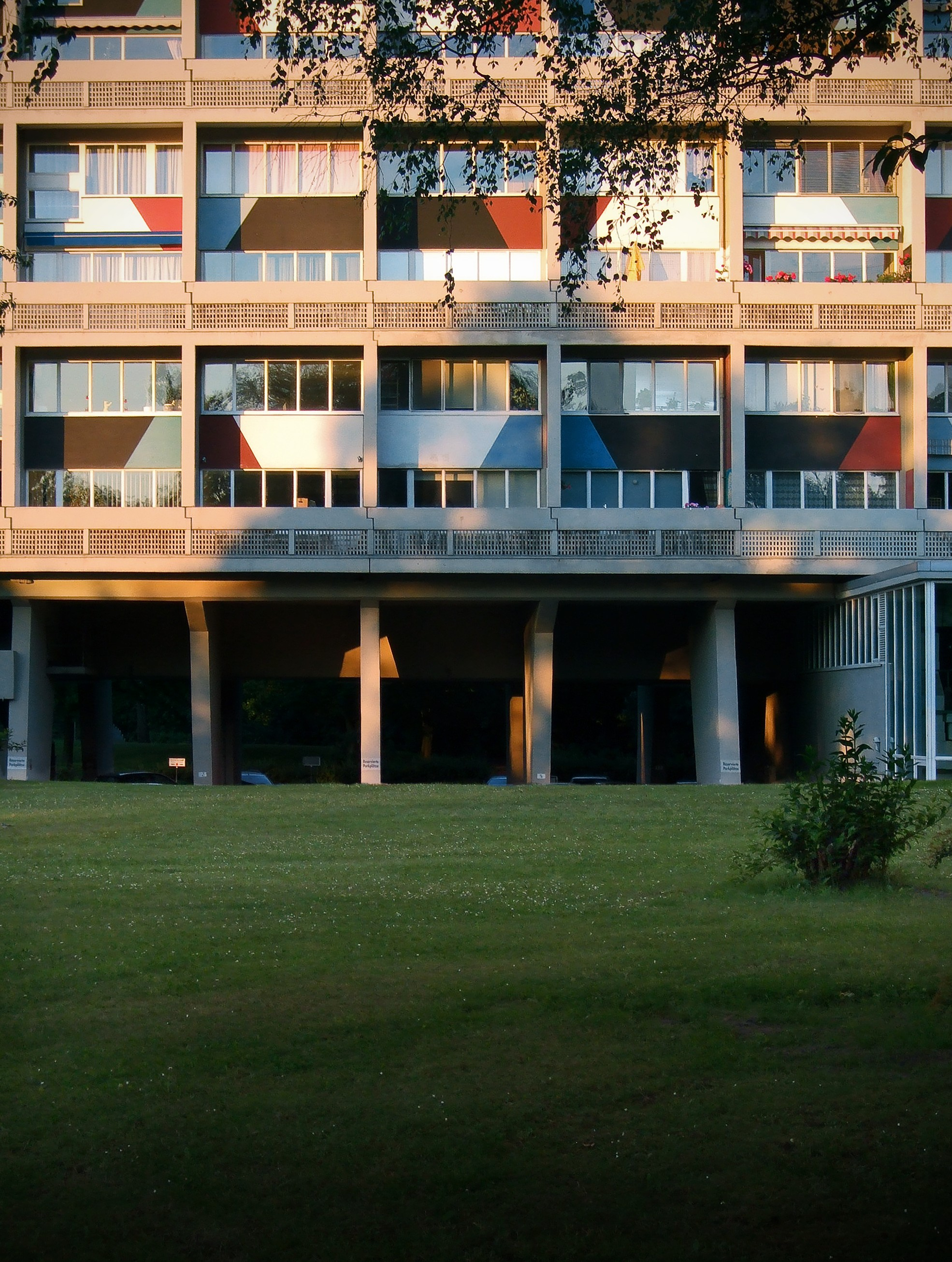 Unité d'habitation, type Berlin ("Corbusierhaus") by Le Corbusier, Flatowallee 16, Berlin, detail view